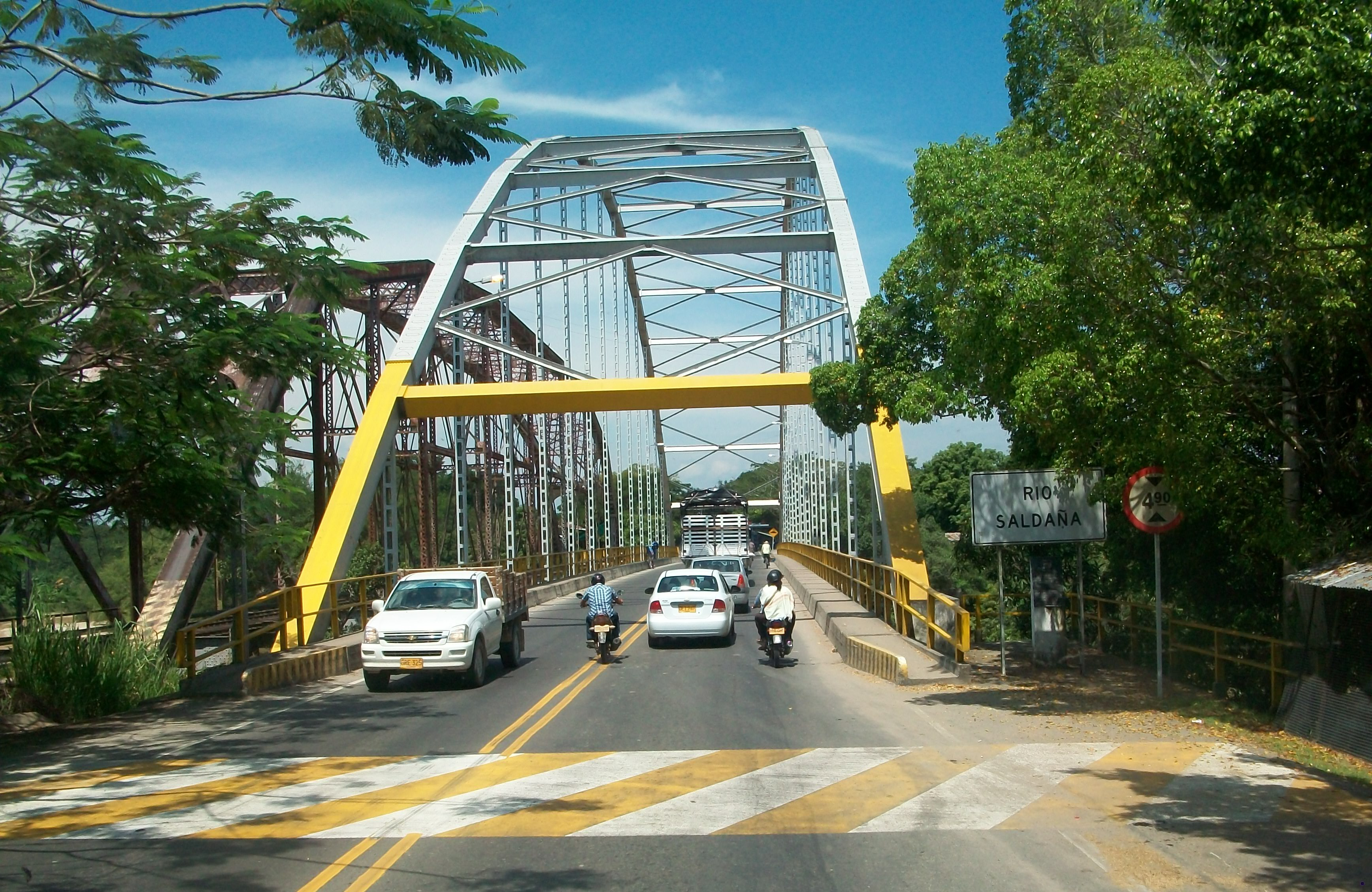 PUENTE SOBRE RIO SALDAÑA